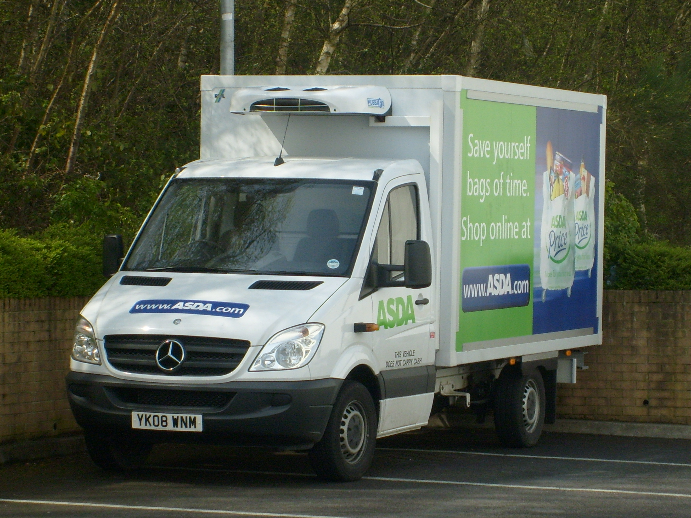 A brand new ASDA Mercedes-Benz Sprinter delivery van.